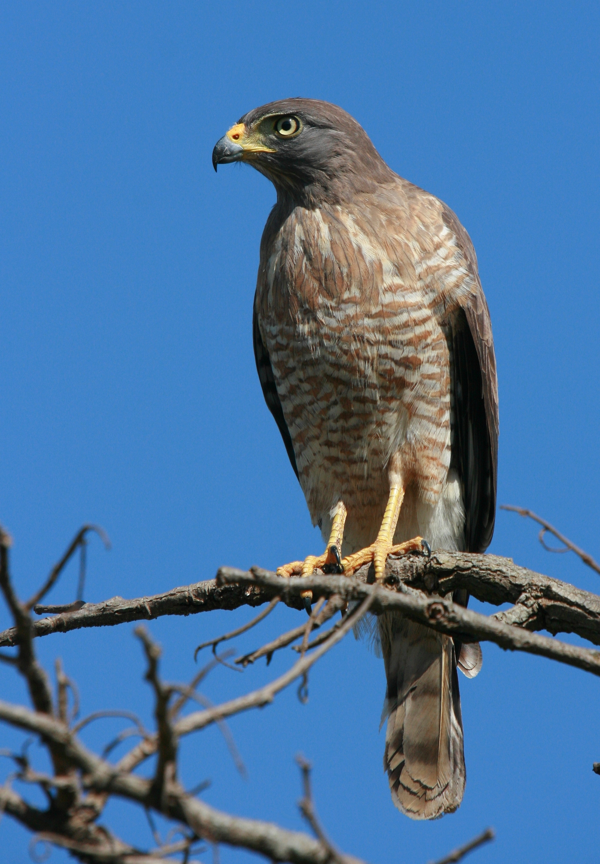 A Roadside Hawk (Buteo magnirostris) perched in a tree in Goiânia, Goiás, Brazil.